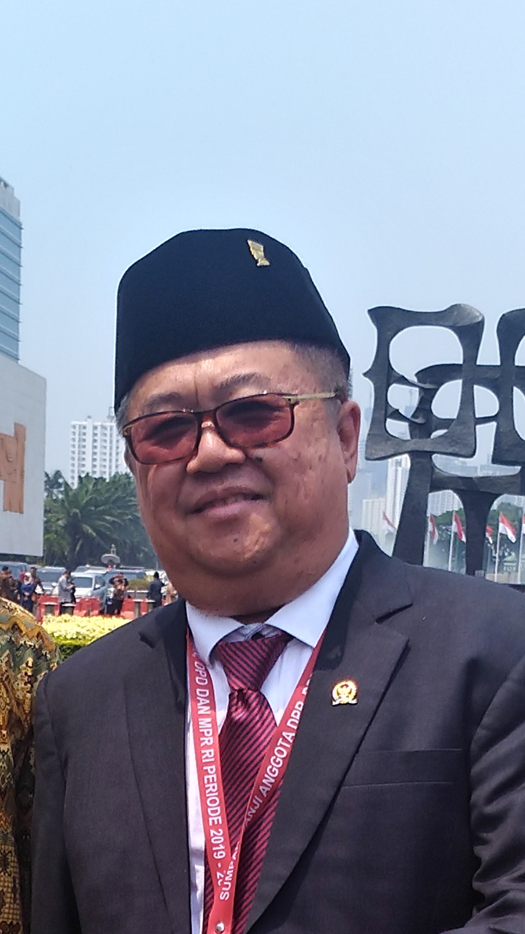 foto pelantikan